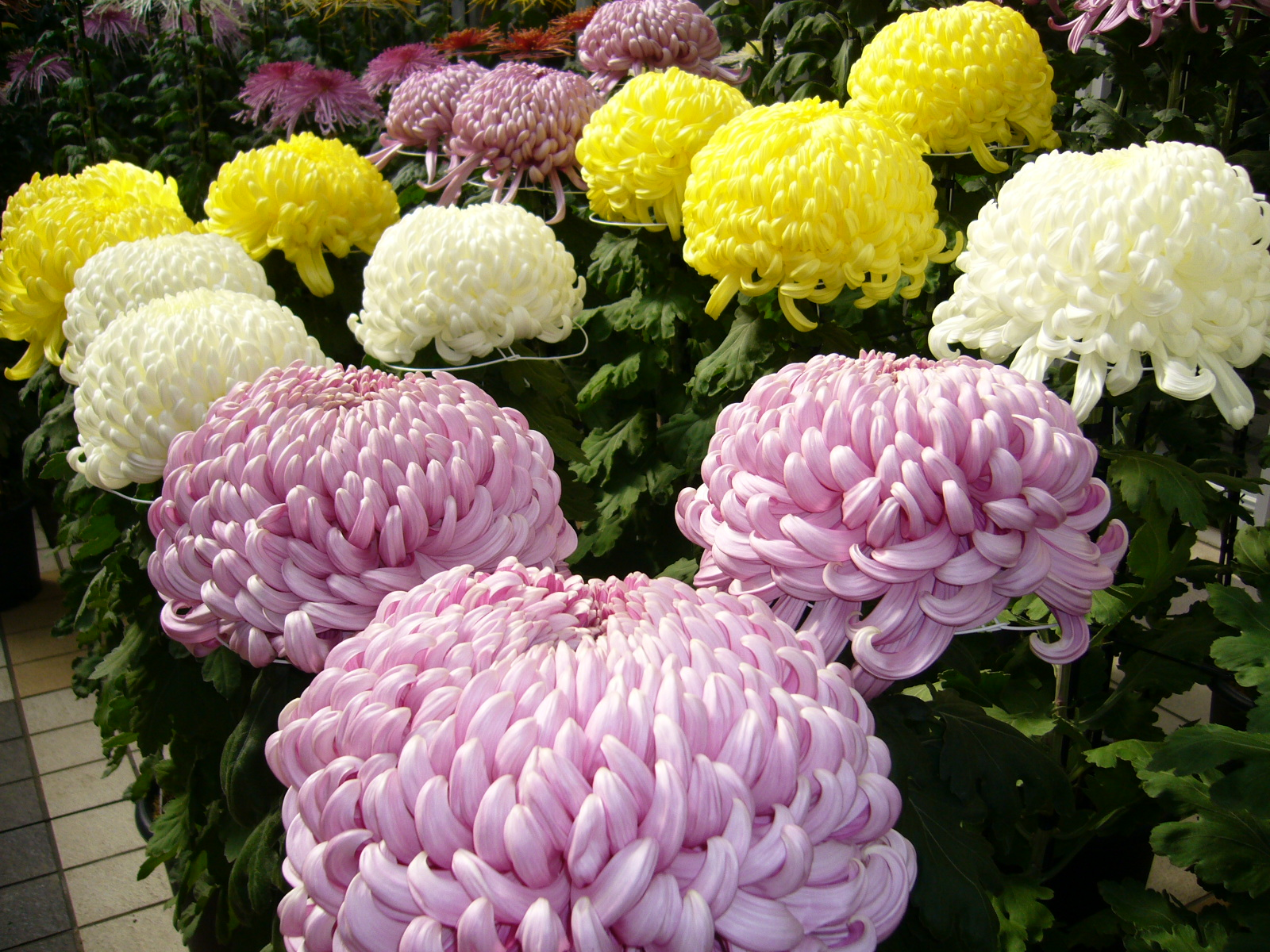 Chrysanthemum × morifolium, kiku, katori-city, Japan